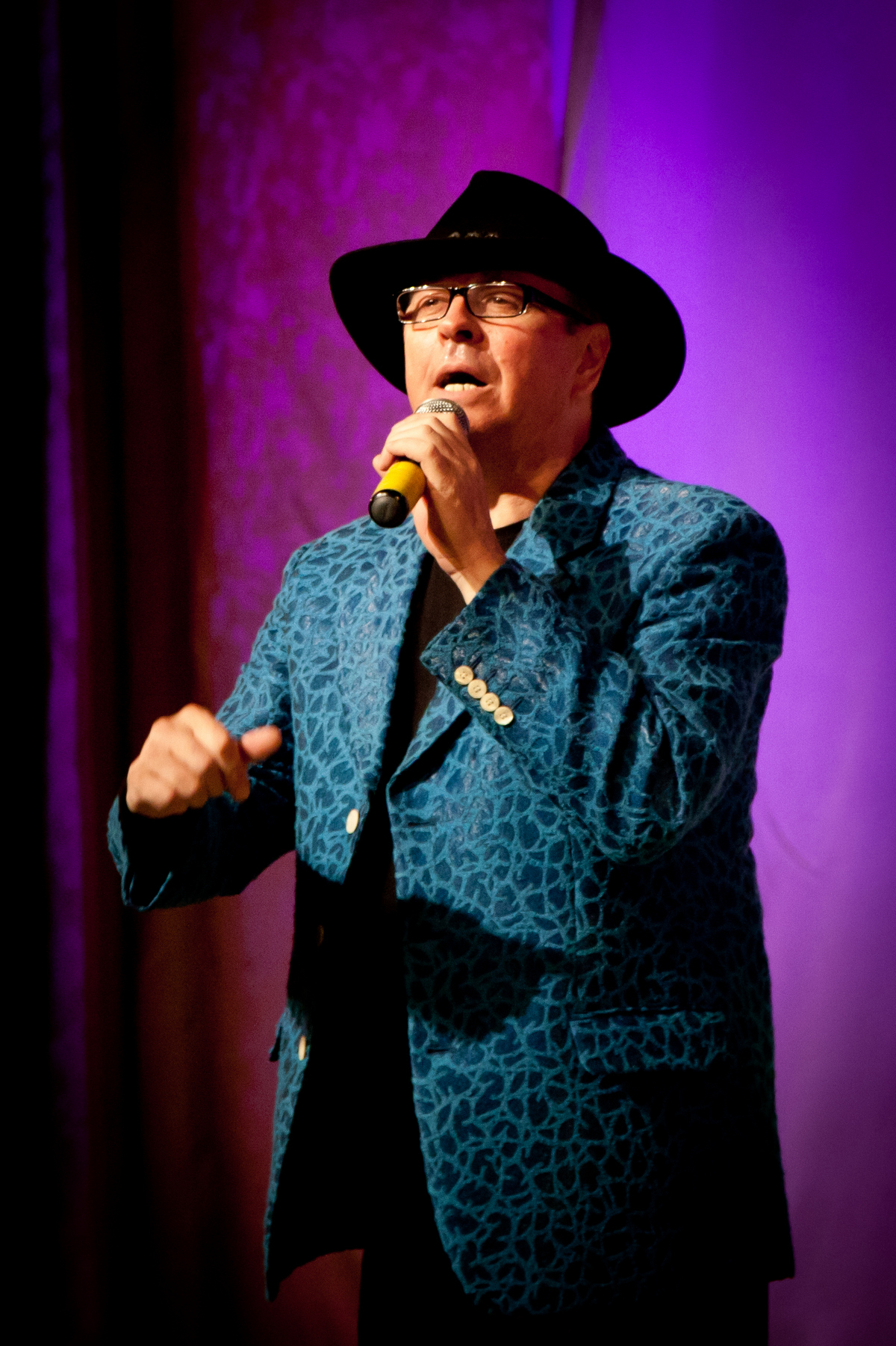 Ion Suruceanu